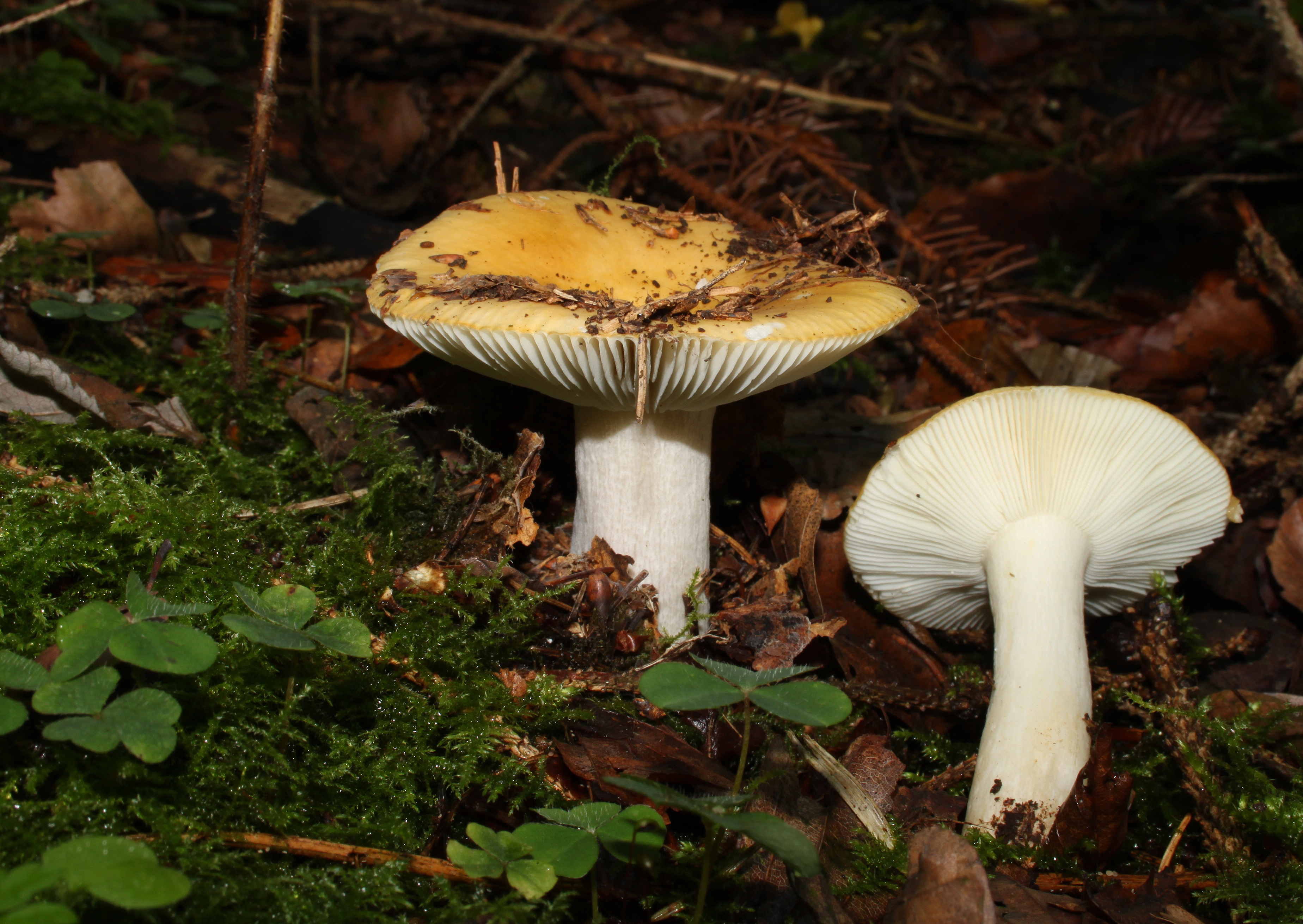 Common Yellow Russula or Ochre Brittlegill, Russula ochroleuca, Family: Russulaceae, Location: Southern Germany, Ulm